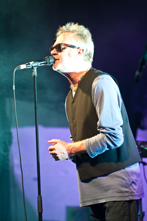 Danish singer C. V. Jørgensen during a rare live concert in Roskilde City Park, Denmark on the 13. July 2010